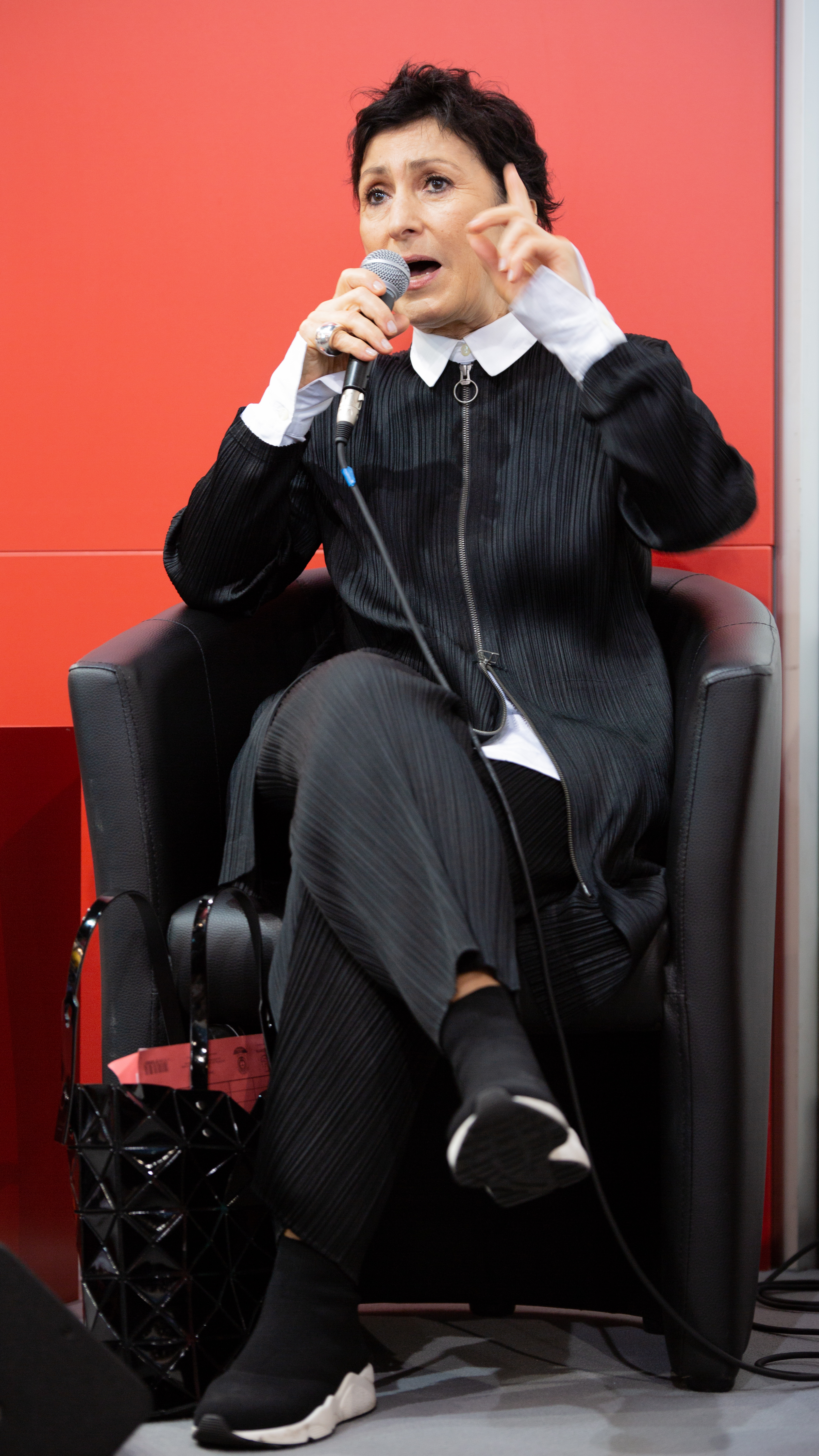 Renan Demirkan in a discussion with Michel Friedman and the presenter Birgit Güll on the Vorwärts stand at the Frankfurt Book Fair 2018